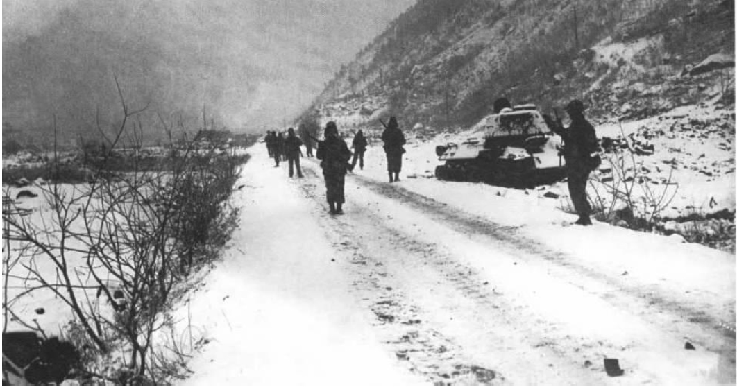 Photo by Cpl James Lyle, National Archives Photo (USA) 111-SC354456 A squad-sized Army patrol, led by Sgt grant J. Miller, from the 3d Infantry Division’s Task Force Dog, moves up from Chinhung-ni into Funchilin Pass on 9 December. The Tank at the side of the road appears to be a Soviet-built T-34 knocked out a month earlier by the 7th Marines.